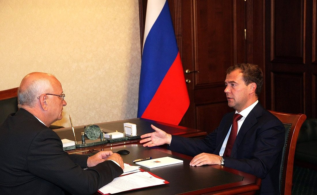 Yuri Berg and president of Russian Federation D. Medvedev